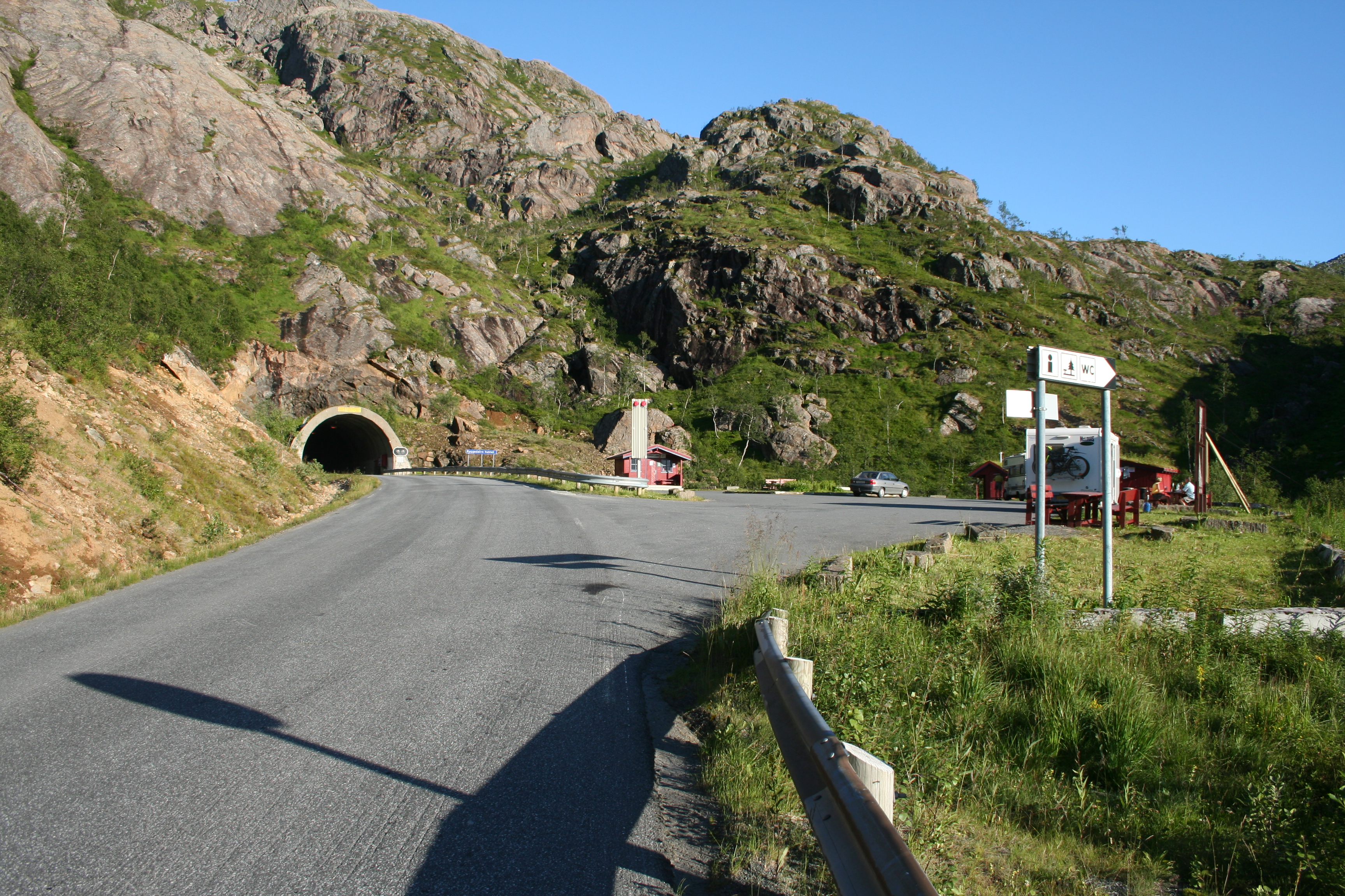 The western opening of the Ryggedalen tunnel in Norway. This picture was taken by me on 29 July 2006